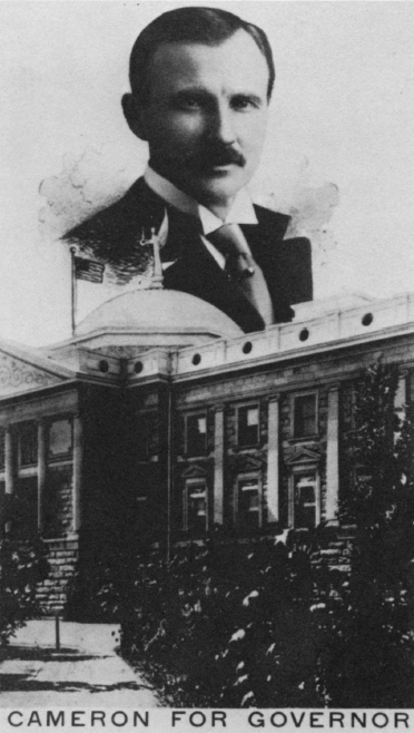 Campaign handbill from Ralph H. Cameron's 1914 run for Governor of Arizona